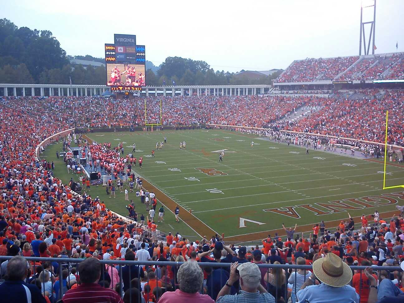 A picture of Scott Stadium during UVA's 2011 season opener against William & Mary.